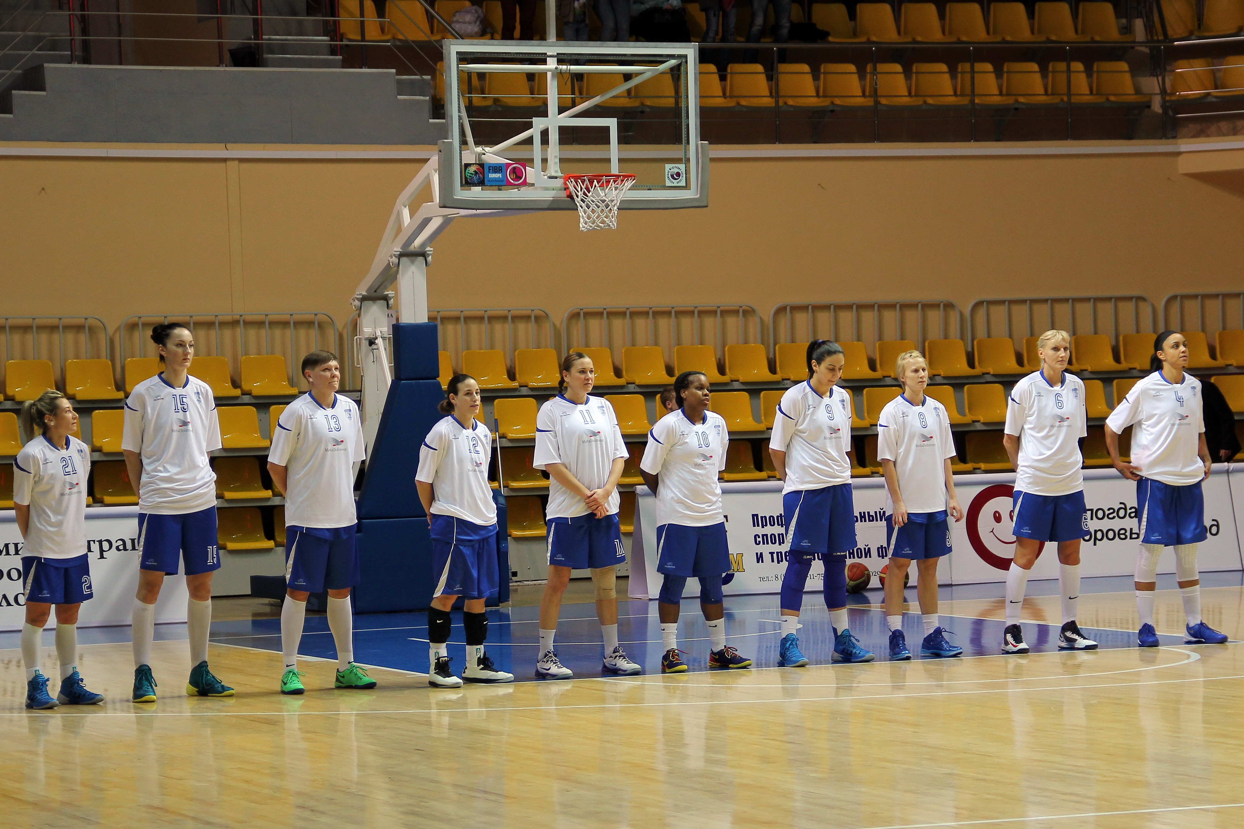 Russia, Women's basketball club «Dynamo» (Kursk)